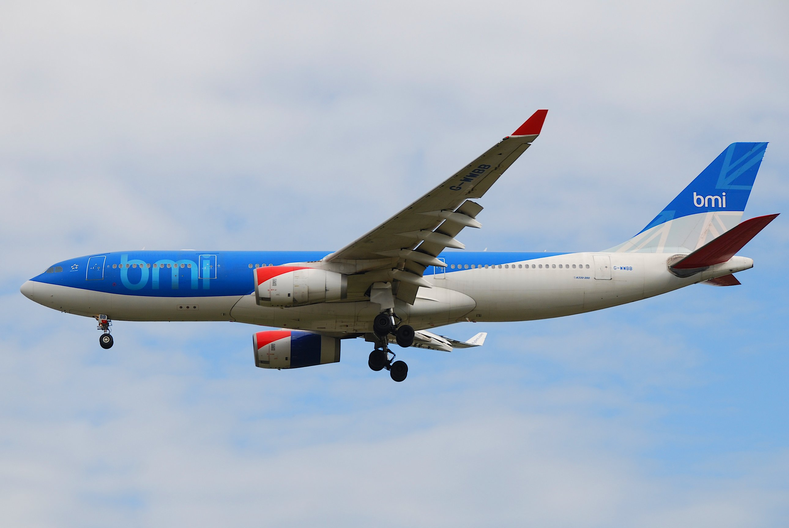 This Airbus A330-243 took its first flight on May 9, 2001...(c/n 404) 30/05/2001 bmi G-WWBB 01/12/2002 South African Airways G-WWBB 31/05/2003 bmi G-WWBB stored 03/2010 19/07/2010 Srilankan Airlines 4R-ALG